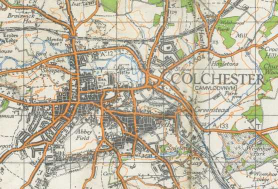 Reproduced from the 1940 OS map